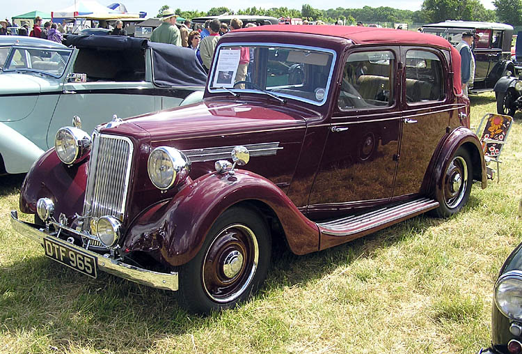 1939 Armstrong-Siddeley 16HP car seen at Kemble Air Show, Kemble, Gloucestershire, England. Cost new: 380 English pounds. Capacity: 1990cc.